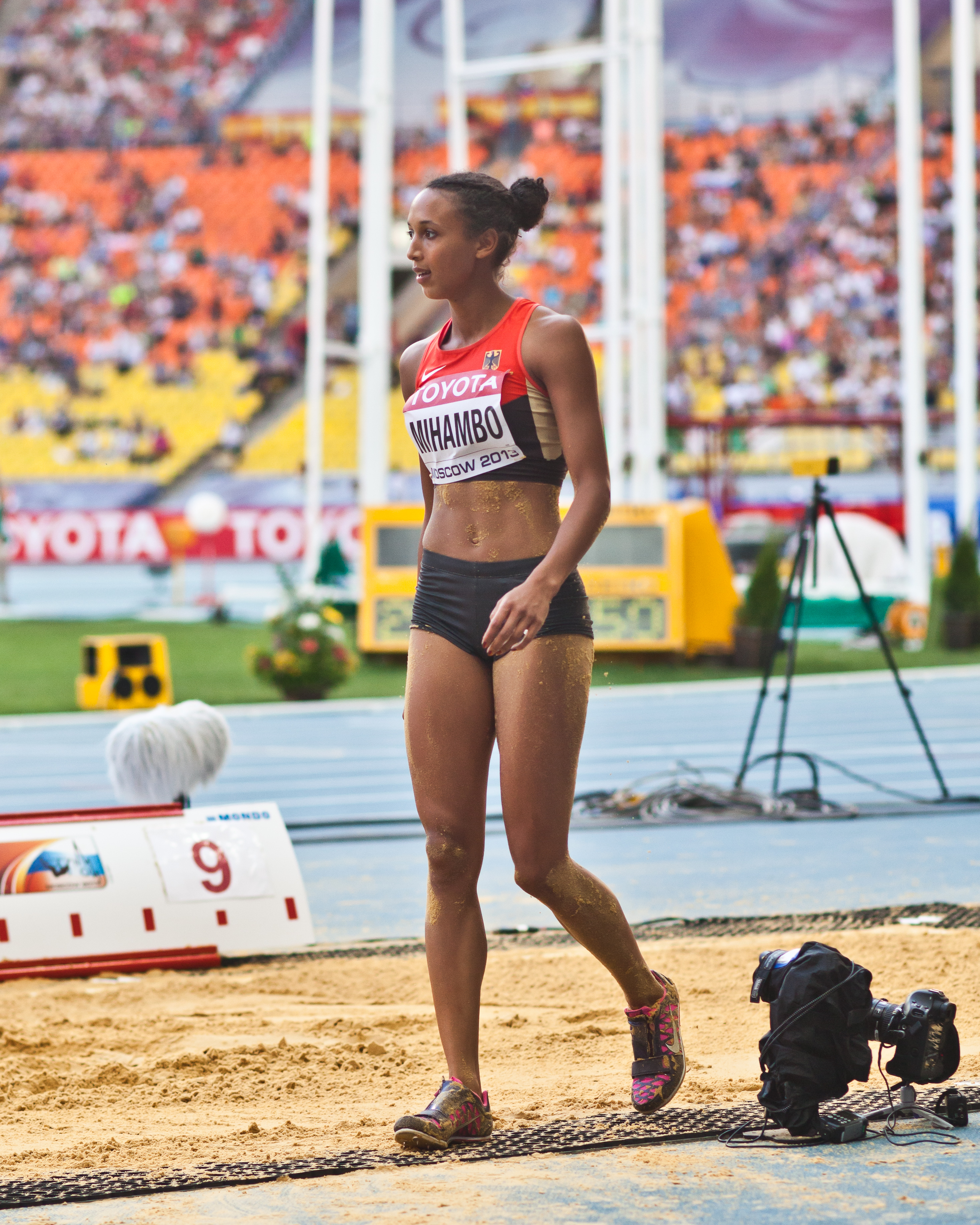 Malaika Mihambo during 2013 World Championships in Athletics in Moscow.